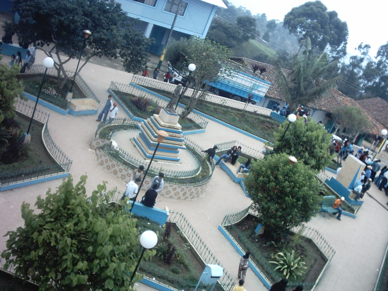 Tomada en el Parque de Pózul